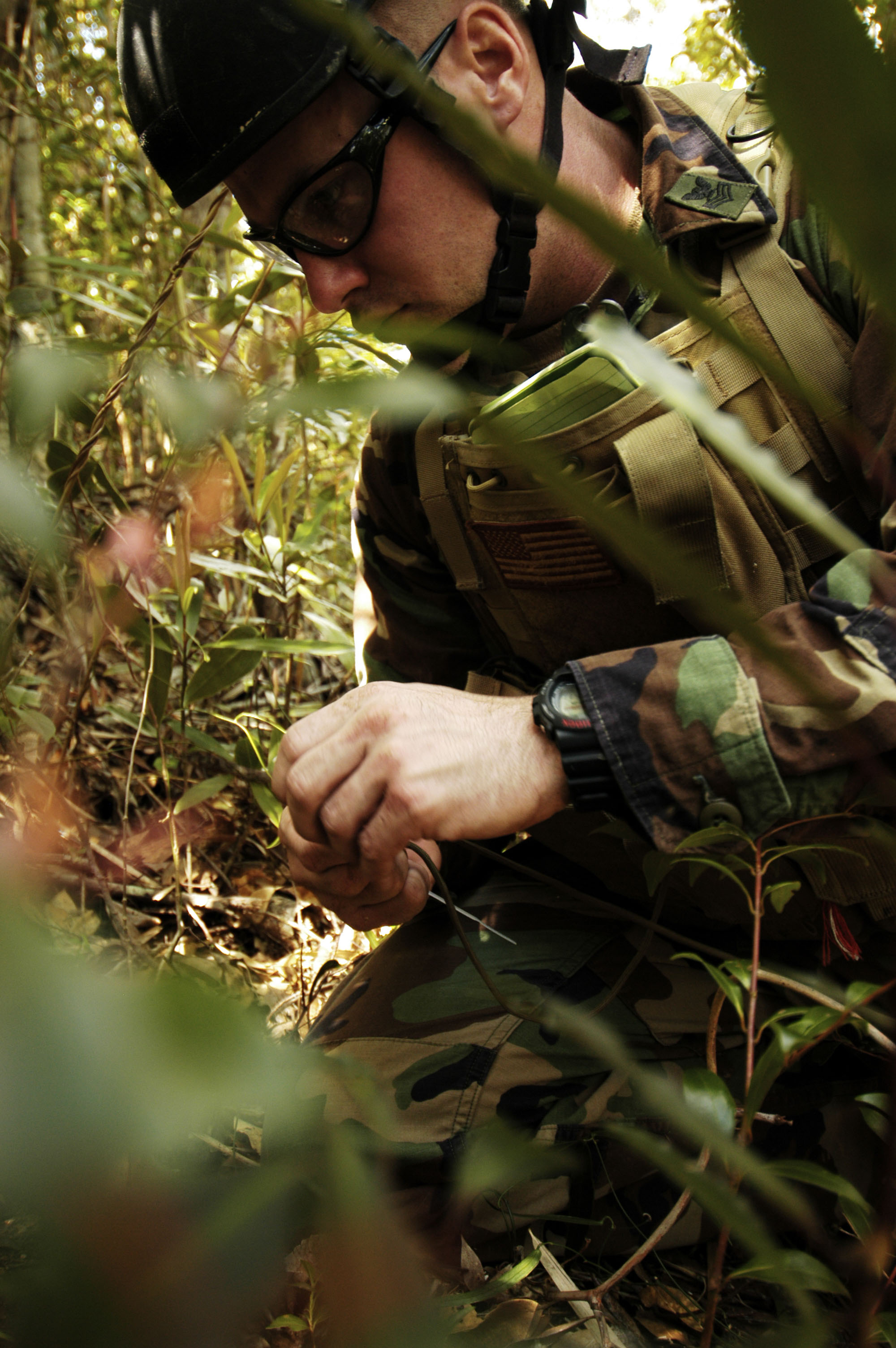 Okinawa, Japan (Mar. 12, 2005) - Aviation Ordnanceman 1st Class Brian Fitzgerald, assigned to Explosive Ordnance Disposal Mobile Unit Five (EODMU-5), assesses the type of explosive booby trap he has to disarm during jungle warfare training exercises held in Okinawa, Japan. EODMU-5 is based out of Guam and currently operating from the conventionally powered aircraft carrier USS Kitty Hawk (CV 63) during its winter deployment. Currently under way in the 7th Fleet area of responsibility, Kitty Hawk demonstrates power projection and sea control as the U.S. Navy's only permanently forward-deployed aircraft carrier, operating from Yokosuka, Japan. U.S. Navy photo by Photographer's Mate 3rd Class Bo Flannigan (RELEASED)